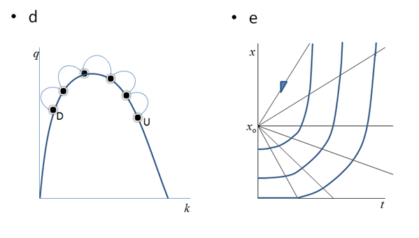 Riemann problem Case II